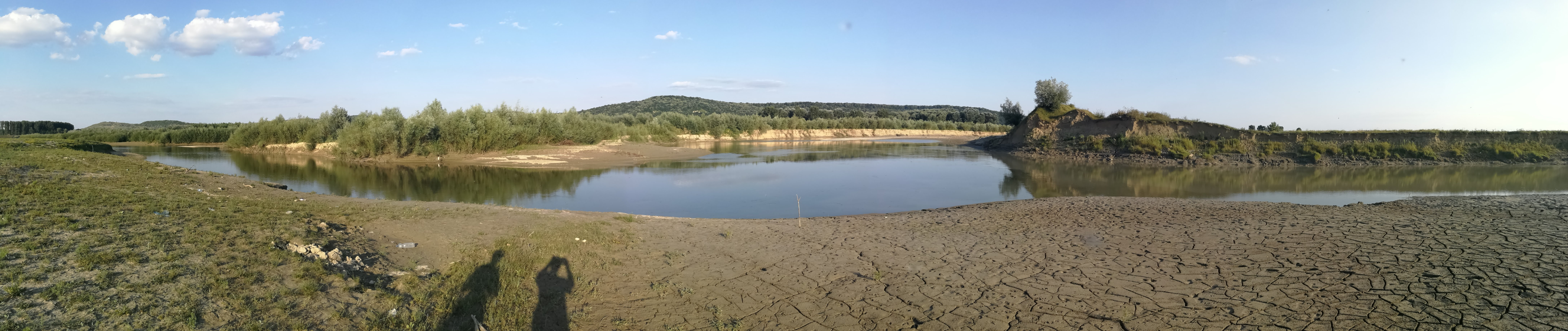 Confluence between Moldova and Siret Rivers, near Roman, Romania